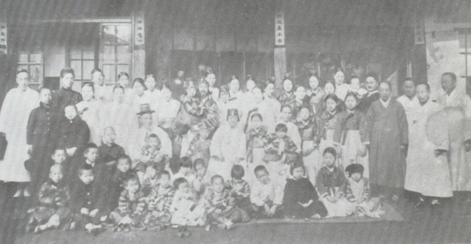 Chwaong Yun-Tchiho's 61th birthday's party